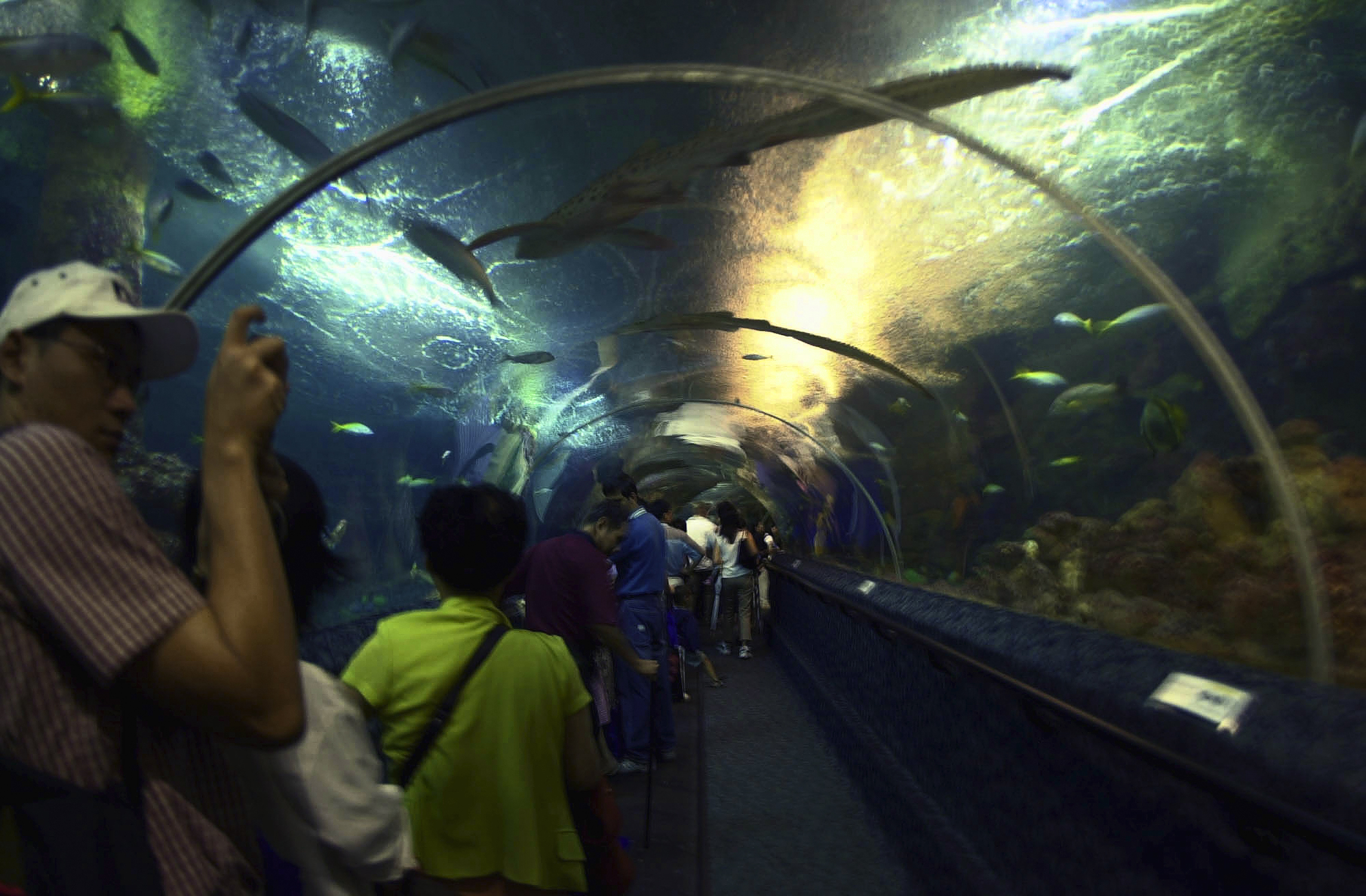 Singapore, Singapore (Sept. 12, 2003) -- During an Under Waterworld tour, crewmembers of USS Nimitz (CVN 68) enjoy a view of fish on Santosa Island. Nimitz Carrier Strike Force and her embarked Carrier Air Wing Eleven (CVW-11) are deployed to the western Pacific, remaining there during the maintenance period of the forward deployed USS Kitty Hawk (CV 63). U.S. policy maintains at least one operational carrier in the region to ensure a responsive defensive posture. U.S. Navy photo by Airman Maebel Tinoko. (RELEASED)